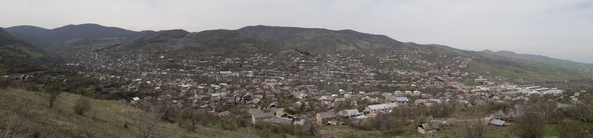 This is panorama of Koghb.